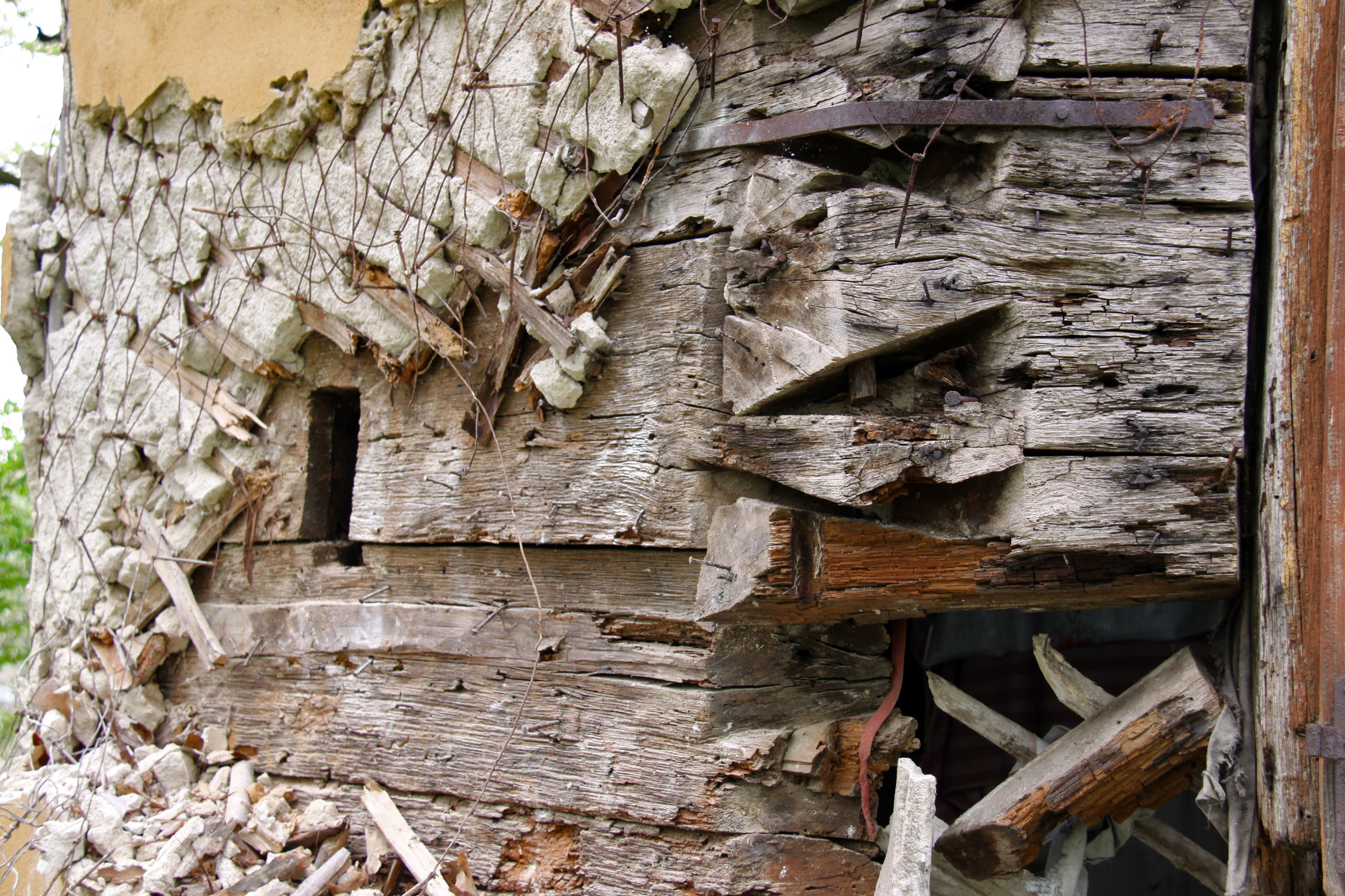 Măgureni, Vâlcea county, Romania: the wooden church, sanctuary, old window and joints.